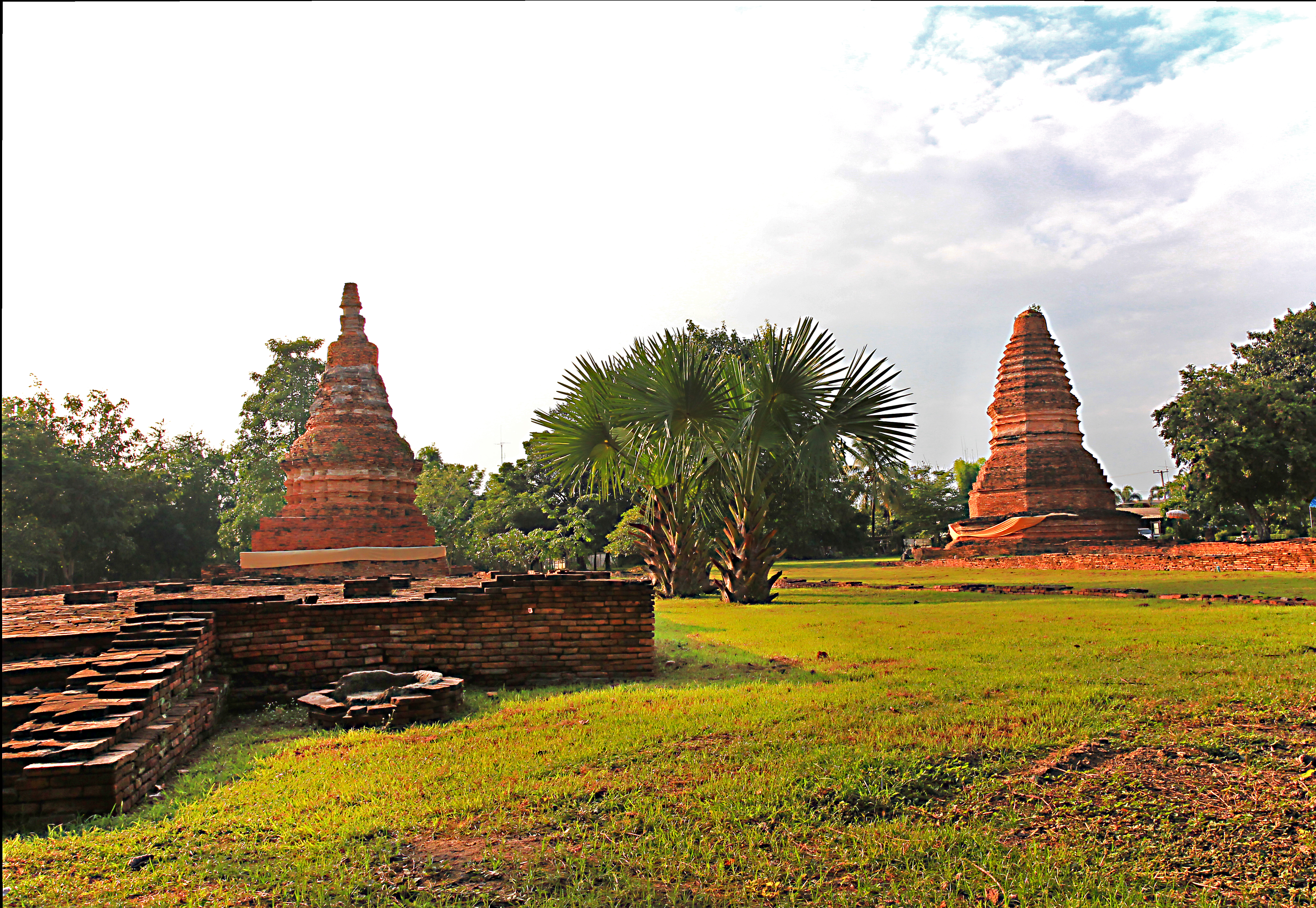 This pagoda is in Wiang Tha Kan Archaeological Compound which was considerably built during 12th-16th Century. This site is valuable for archaeological and historical studies. The compound is in San Pa Tong District, Chiang Mai, Thailand.